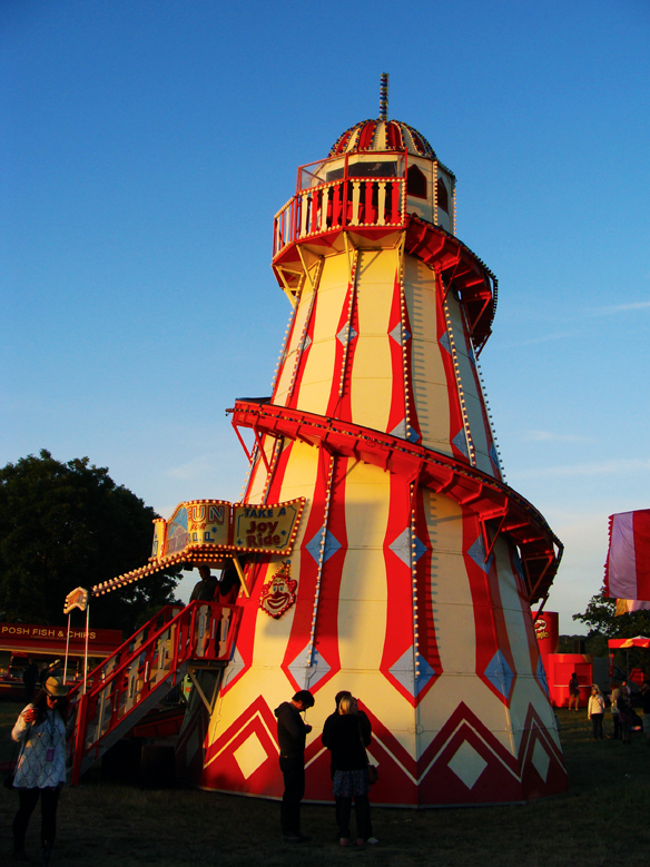 A Helter Skelter ride, seen at the Isle of Wight Festival 2011.